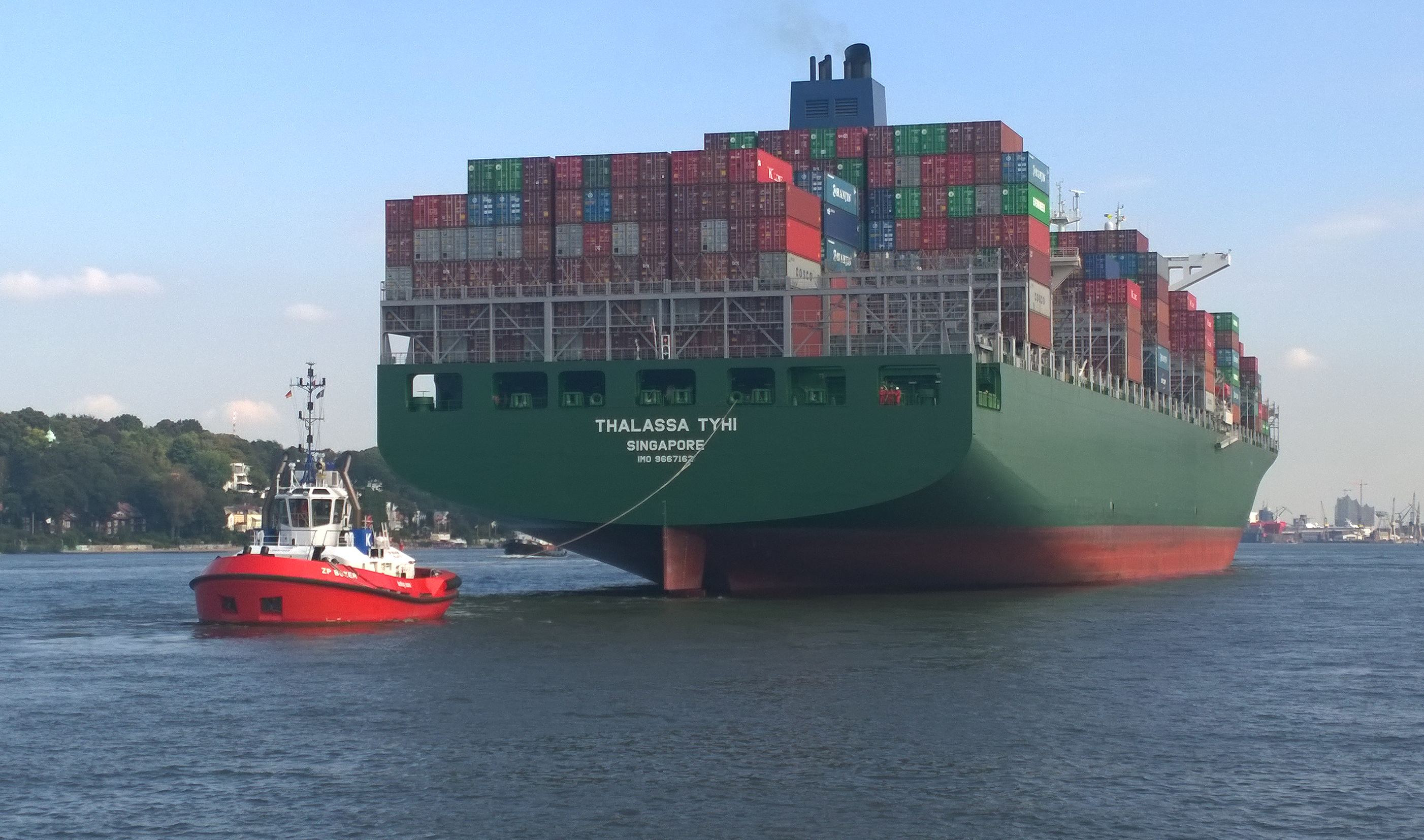 The new Thalassa Tyhi with stern tug ZP boxer - heading for Port of Hamburg. The ship is on its maiden voyage.